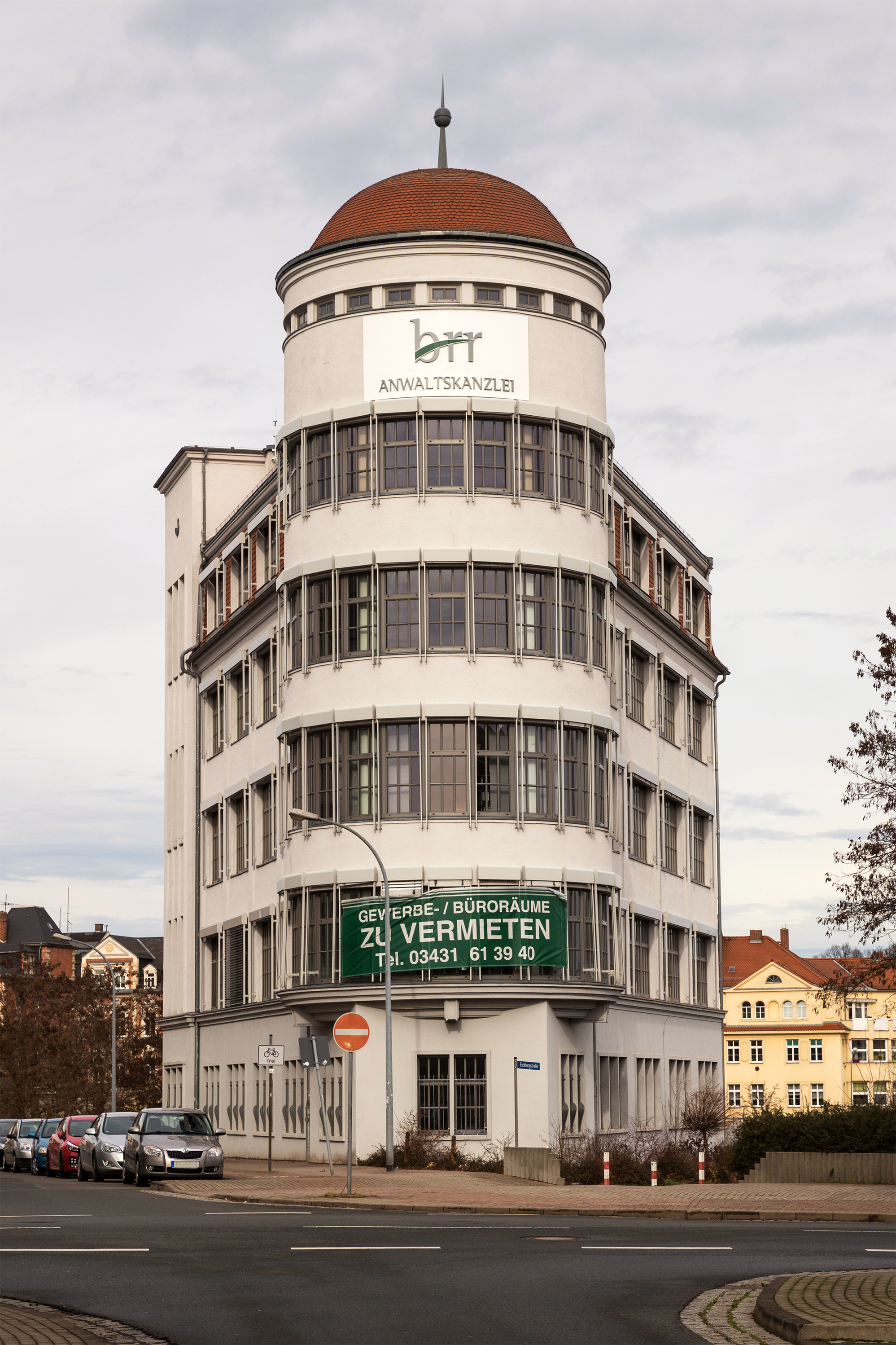 Döbeln, Saxony, Grimmaische Straße 14 (cultural heritage monument)